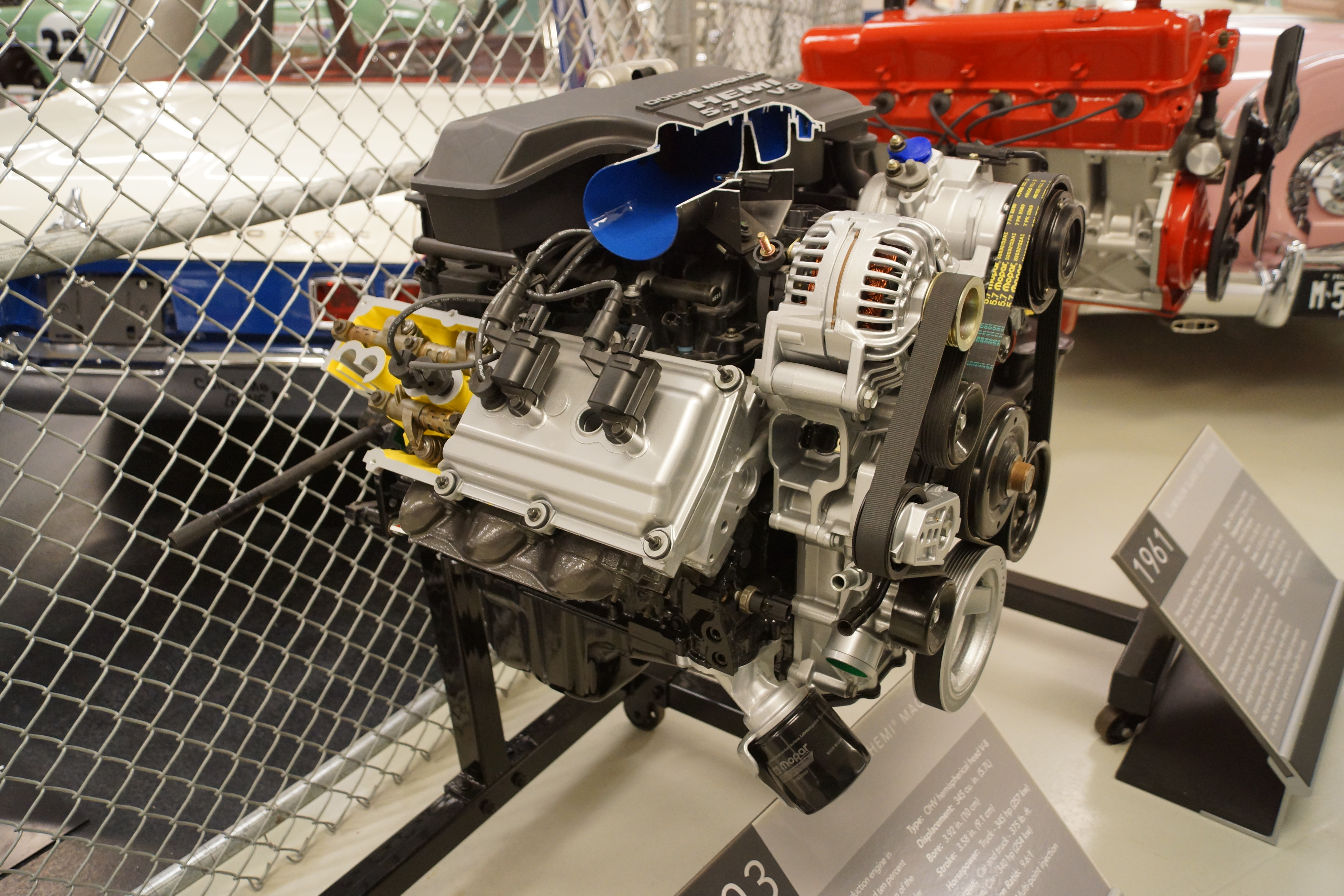 Click here for more car pictures at my Flickr site. Or here for my Car Crazy Tumblr site. Back on November 4th, Hemming's Blog posted an article about the closing of the Walter P. Chrysler Museum . I had missed a couple other opportunities with the WPC Club and others to get into the museum, after it had closed to the public. I did not want to regret missing this last chance to see all of the vehicles before being spread out to other facilities. I trekked from Western Minnesota to Eastern Michigan during Winter Storm Decima. I missed the worst parts of the storm, but still had to endure the aftermath winds, sub zero temperatures and a lake effect snow storm. The trip was difficult, but well worth it. I got to see several Chrysler Corporation concept and show cars that I had only seen pictures of before. There were several clever interactive displays demonstrating various innovations over the years. Since it was the last chance, I duplicated several shots using different camera settings to see what produced better results. I wish I had invested in a strobe light diffuser for all of those indoor pictures. I have not had much experience or success in the past with indoor car images.